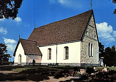 Viksta church, Uppland, Sweden